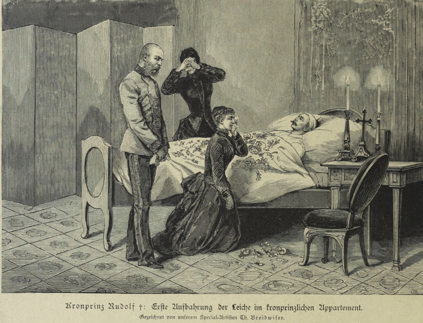 The emperor and empress at the deathbed of Rudolph; Mayerling, scene of the drama with Crown Prince Rudolph of Austria